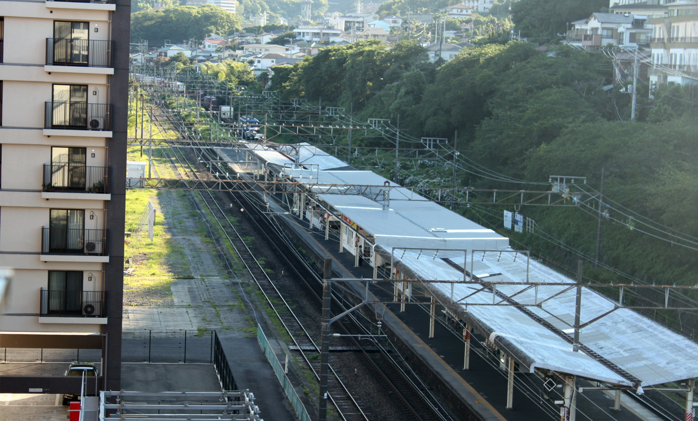 Yugawara, Kanagawa Prefecture, view of station platform from northeast to southwest 35.146755, 139.103170 Picture by Bertel Schmitt